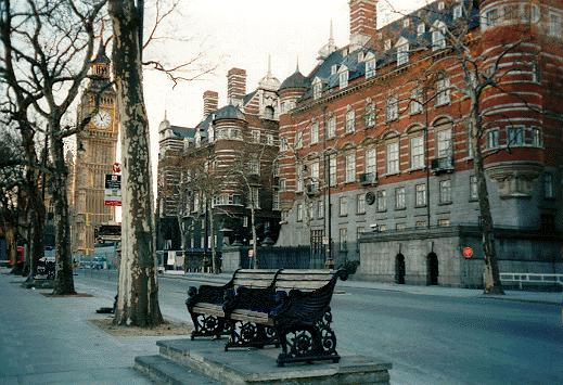 Street view of the Victorian Norman Shaw Buildings on the Victoria Embankment, Westminster, London, previously home of New Scotland Yard, which opened there in November 1890, near the clock tower of the Palace of Westminster (Big Ben). In 1967, New Scotland Yard moved to the 20-story building at 10 Broadway. Architect: Richard Norman Shaw. Source: photo, edited to remove people from sidewalks.